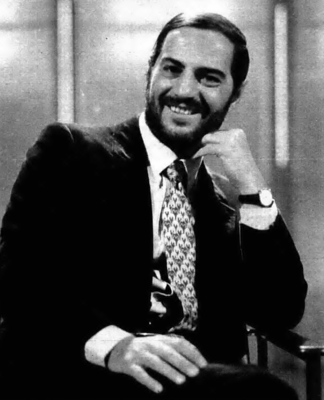 Italian actor Nino Manfredi guest of an Italian TV show, Rome, 1969